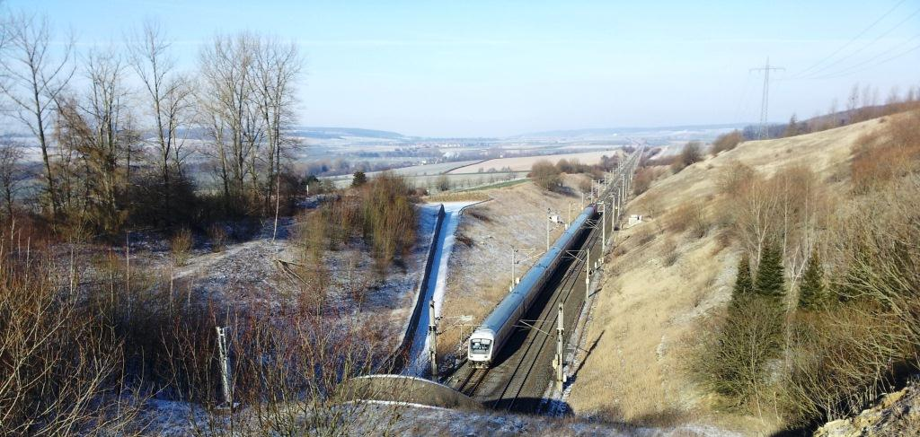 North tunnel mouth of the Riesbergtunnel, Hanover-Würzburg high-speed railway line.